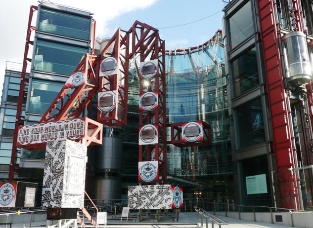 Channel 4 headquarters On the junction of Horseferry Road and Chadwick Street. There is now this steel-framed "4" in the forecourt, and a passer-by told me that in the evening they switch all these televisions screens on.